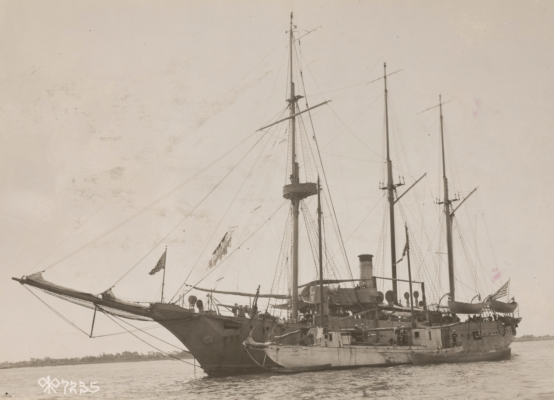 German Raider "Alexander Agassiz" and the American warship which brought her in to a US port.